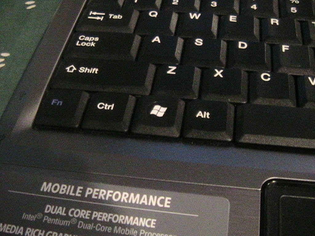 Windows Key on black laptop keyboard.